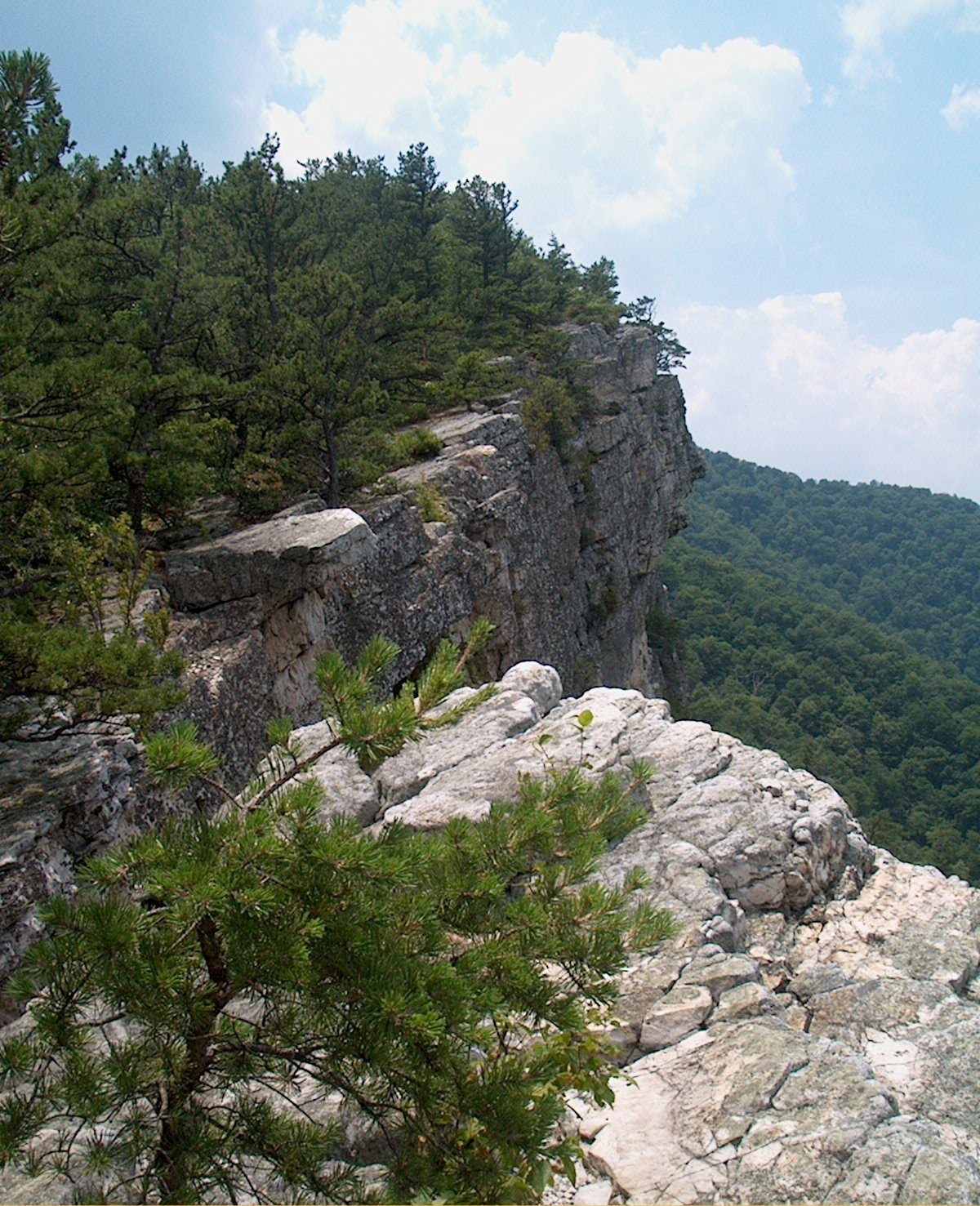 Northern section of North Fork Mountain looking south from the top of what locals call "Shelby's Cliffs." Picture taken on North Fork Mountain Trail in Grant County, West Virginia.